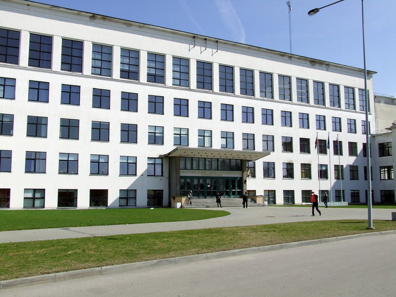 Lithuanian University of Agriculture, Kaunas District, Lithuania.